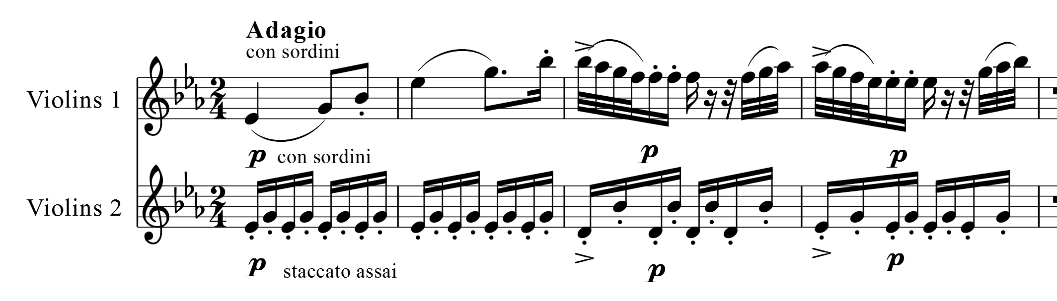 Joseph Haydn, Symphony No. 68, third movement, bar 1-4